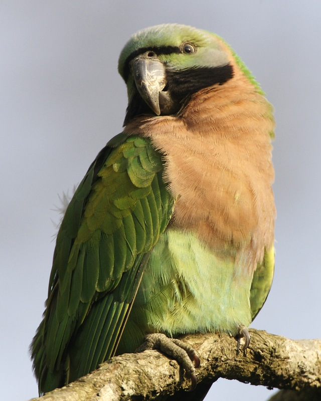 Red-breasted Parakeet (Psittacula alexandri) ssp Psittacula alexandri fasciata in Kazaringa, Assam, India on 14 April 2008.